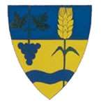 Coat of arms of Felsőkelecsény, Hungary